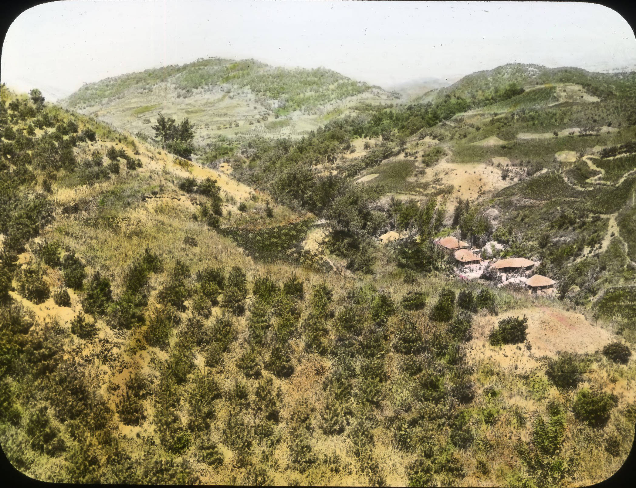 Young trees, Kongju, [s.d.] Trees planted on mountainside near Kongju High School by boys studying forestry. Mountainside was given to the school for this demonstration purpose. Boys at Pyenyang build roads and work the school farm. Such "self-help" programs enable the boys to earn scholarships. Date created: 1908/1922 Publisher (of the Digital Version): University of Southern California. Libraries Repository Name: Methodist Church (U.S.) Legacy Record ID: kda-m51 Photographer: Methodist Episcopal Church Format: photograph Archival file: kda_Volume42/Taylor_box45num38.jpg Rights: "Neither the General Conference nor any General Agency of The United Methodist Church (successor to the Methodist Episcopal Church) claims any interest in the photos or images." Part of subcollection: The Reverend Corwin & Nellie Taylor Collection Coverage date: 1908/1922 Contributing entity: University of Southern California Repository Address: Nashville, Tennessee Part of collection: Korean Digital Archive Donor: Taylor, Ewing Bevard Filename: Taylor_box45num38 Type: images Geographic Subject (City or Populated Place): Kongju Geographic Subject (Country): Korea Compiler: Taylor, Corwin; Blood-Taylor, Nellie